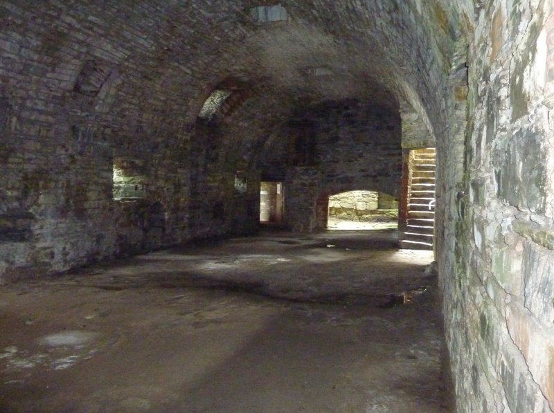 Noltland Castle, Westray, Orkney, Scotland. Kitchen in the main block.